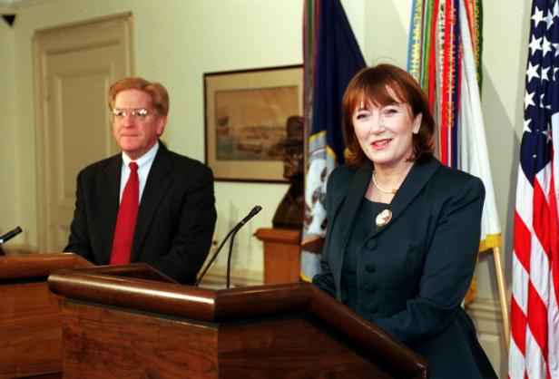 Baroness Symons in her role as Minister of Defence Procurement, pictured shortly after signing a Memorandum of Understanding regarding the SDD phase of the Joint Strike Fighter.